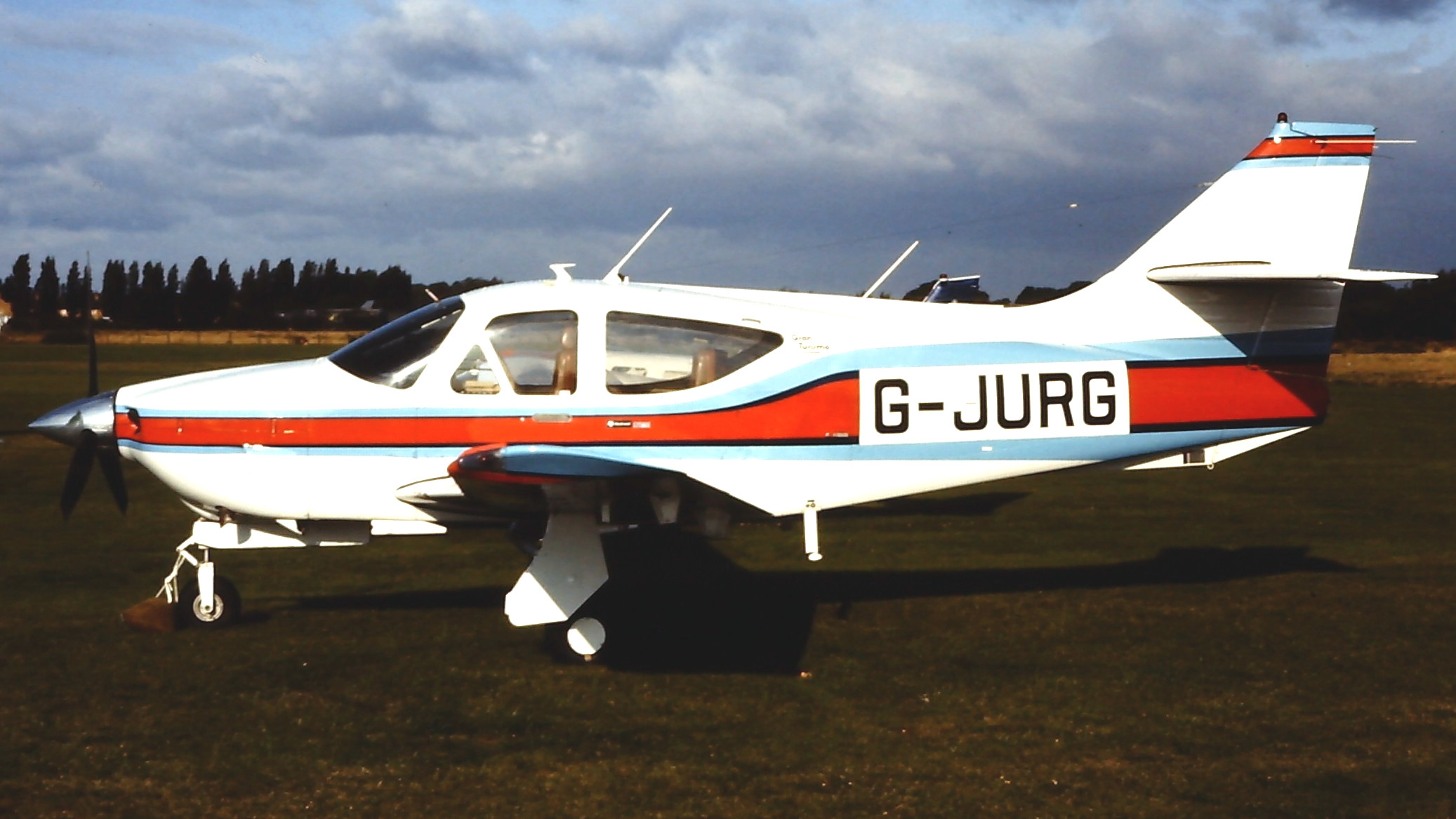 G-JURG a 1979-built Rockwell Commander 114A at RAF Finningley, Yorkshire (scan from slide)